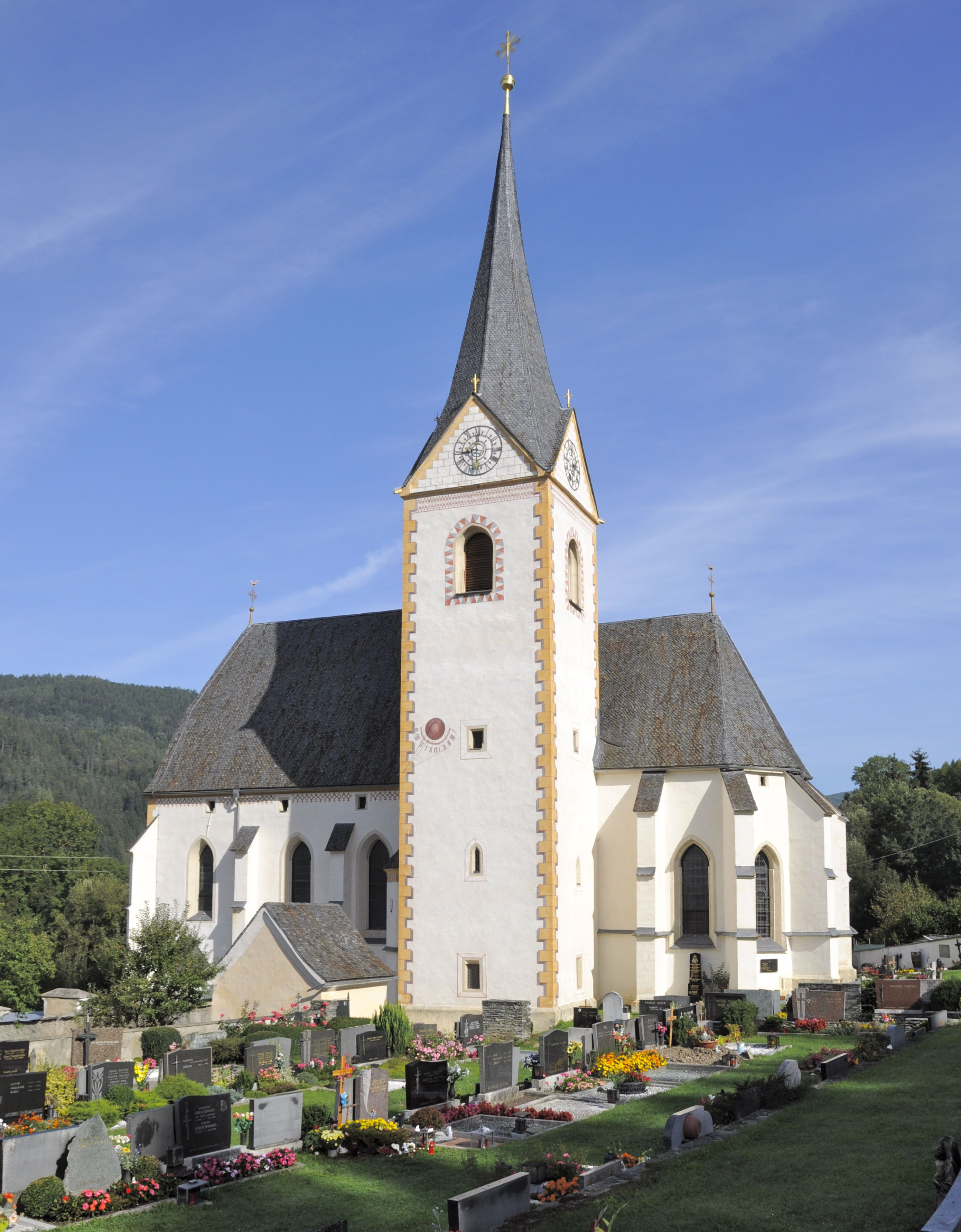 Parish church Saint John the Baptist on Sankt Johanner Strasse #26, market town Brückl, district Sankt Veit an der Glan, Carinthia, Austria, EU